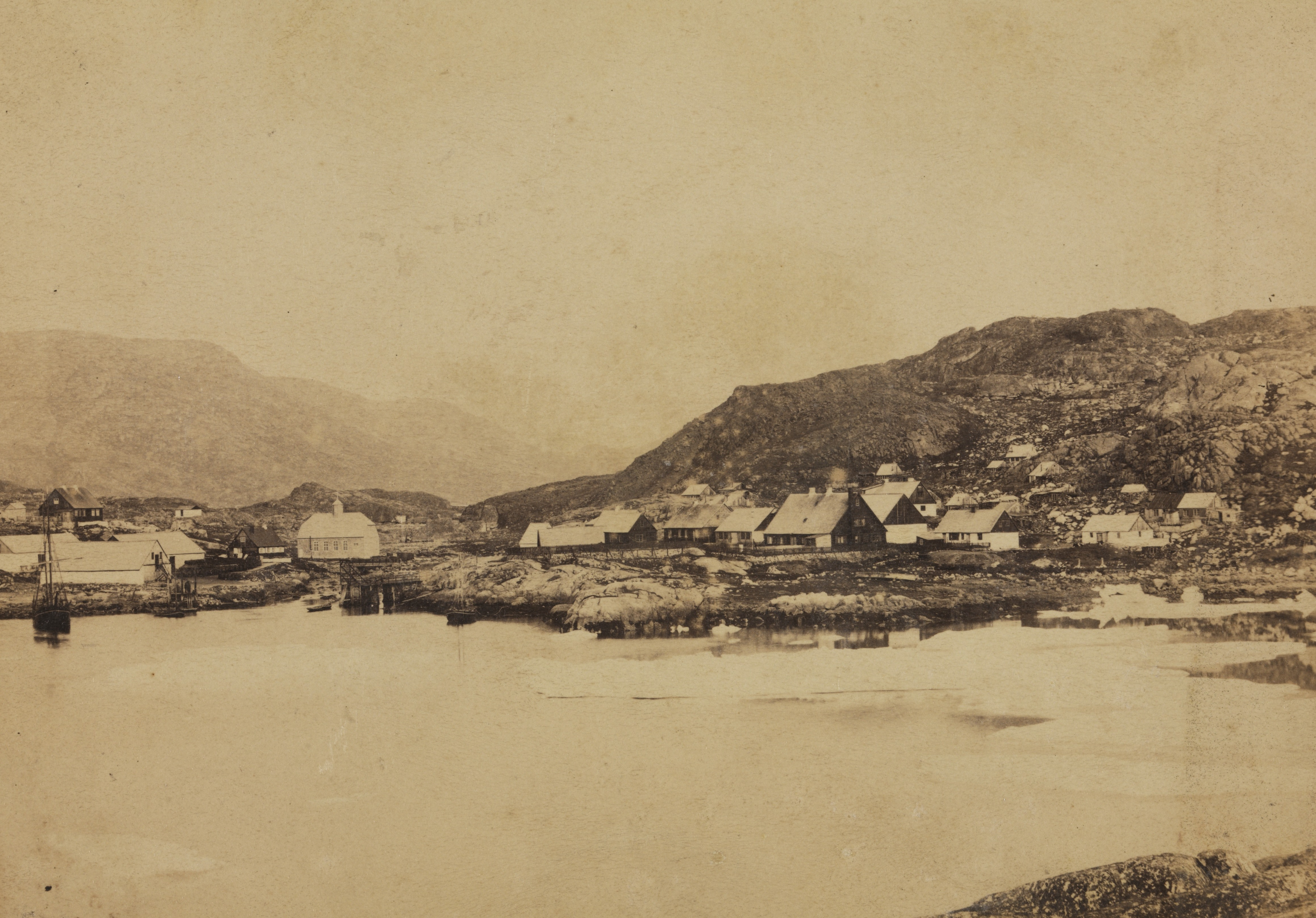 View of the settlement with the harbor in the foreground.